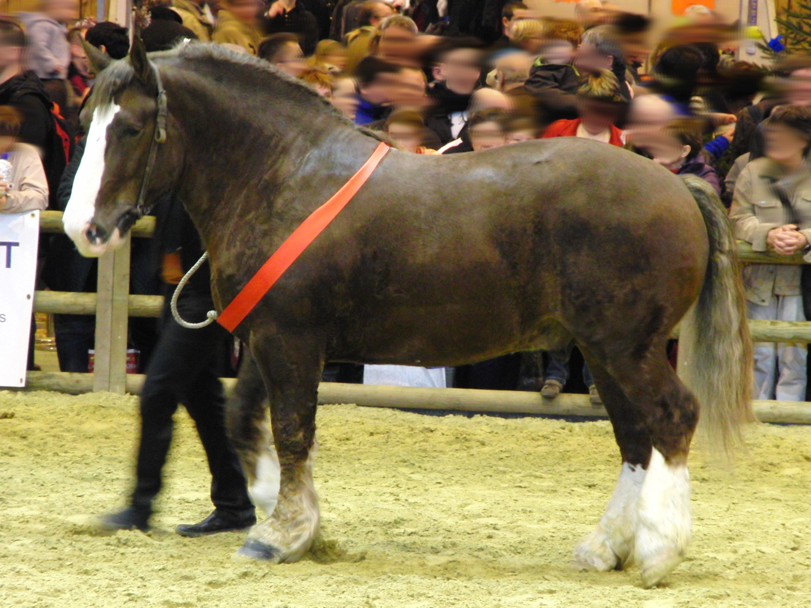 Breton stallion during a show - Paris International Agricultural Show 2012, Paris, France